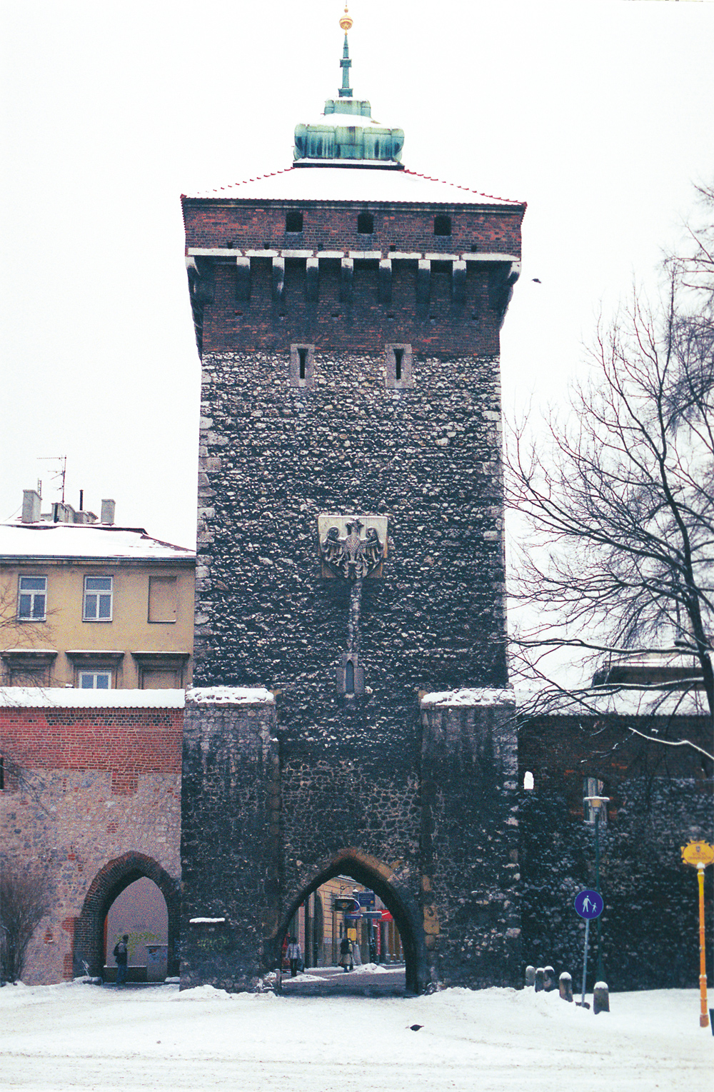 St. Florian Gate in Kraków